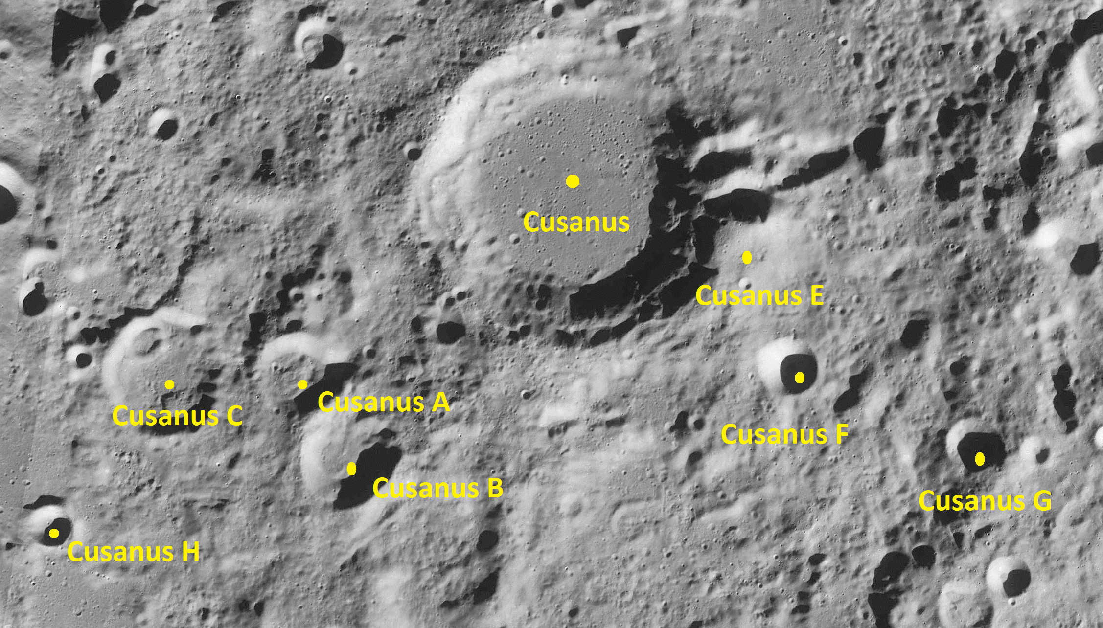 Derivatev work from "Petermann + Cusanus - LROC - WAC.JPG" (version 09:25, 27 January 2012). Cropped area of Cusanus craters and labelled.